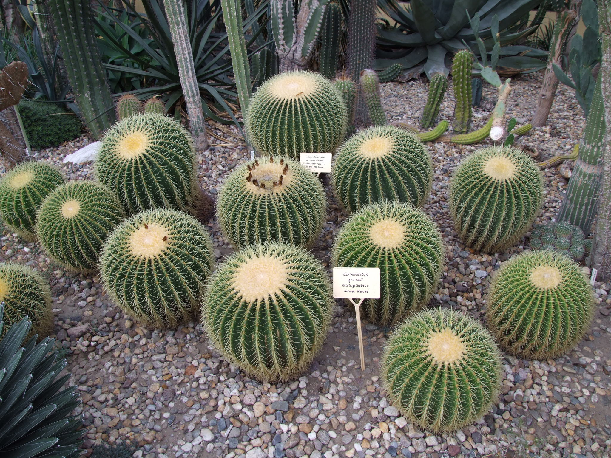 group of Echinocactus grusonii, photo taken at Gruson greenhouses in Magdeburg, Germany